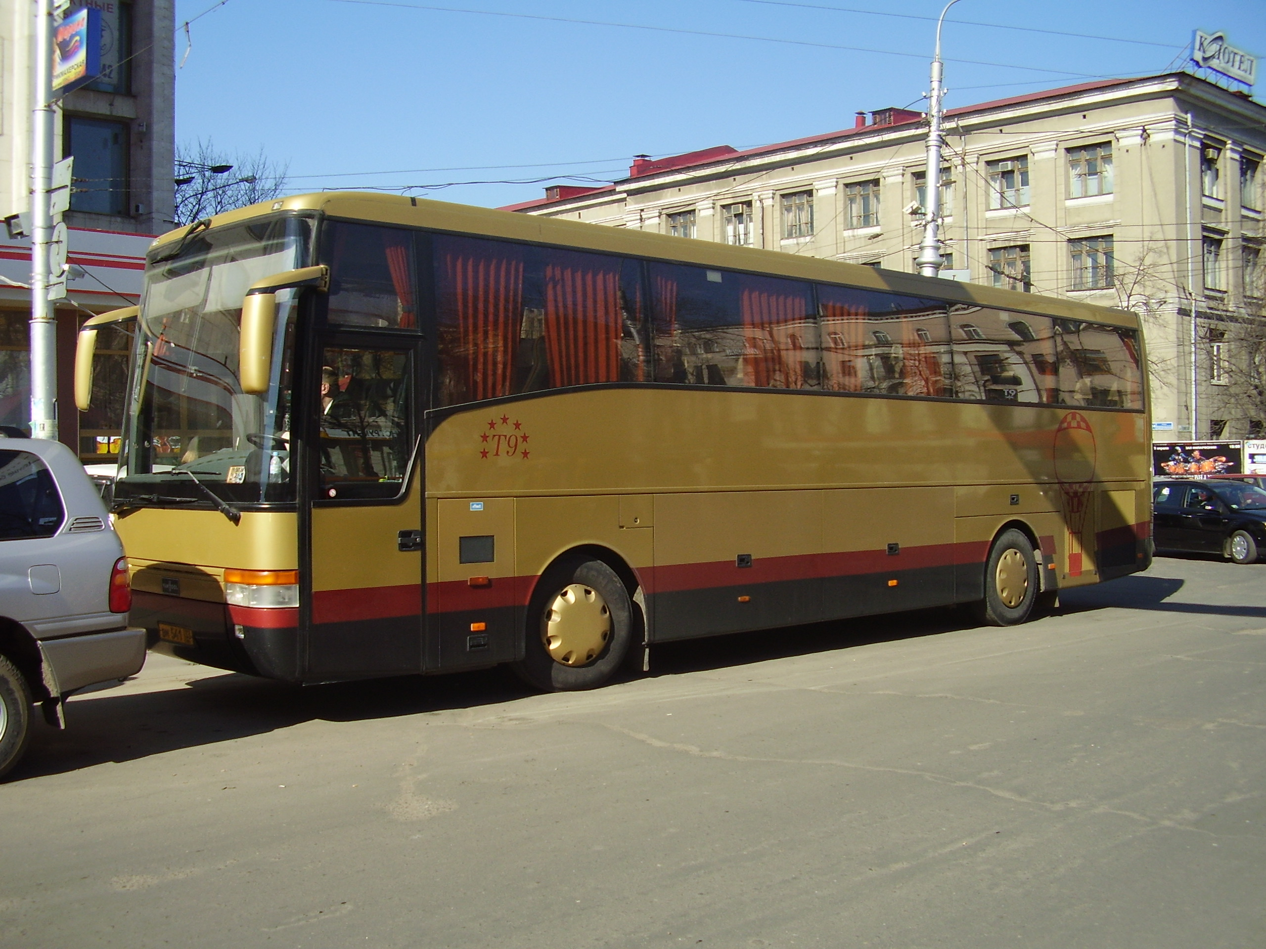 Van Hool T915 Acron coach.